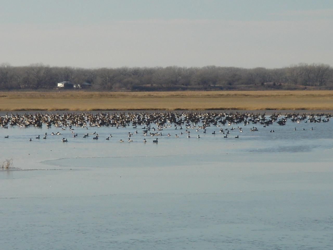 Birds on one of Quivira National Wildlife Refuge's salt marshes in December 2006.